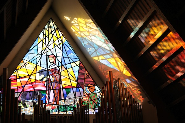 Torshov Church - Den gode hyrde